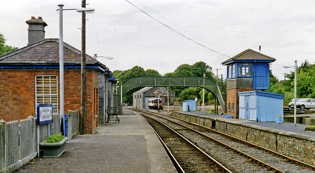 Carrick-on-Suir Station, View westward, towards Limerick Junction; ex-Great Southern & Western, Limerick Junction - Waterford - Rosslare line. In the siding in the distance is a preserved Diesel.